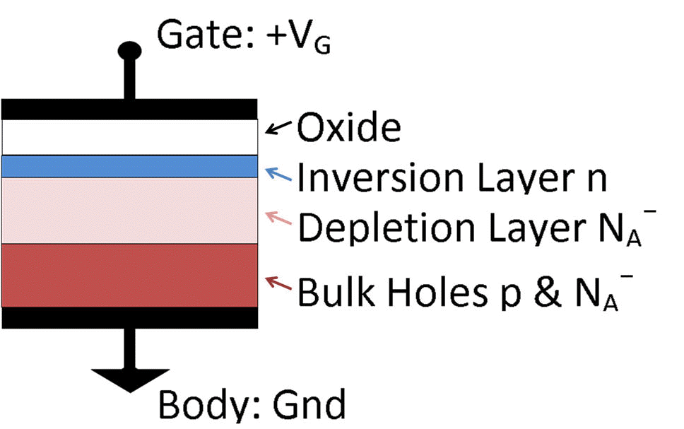 MOS capacitor on p-type silicon showing inversion and depletion layers